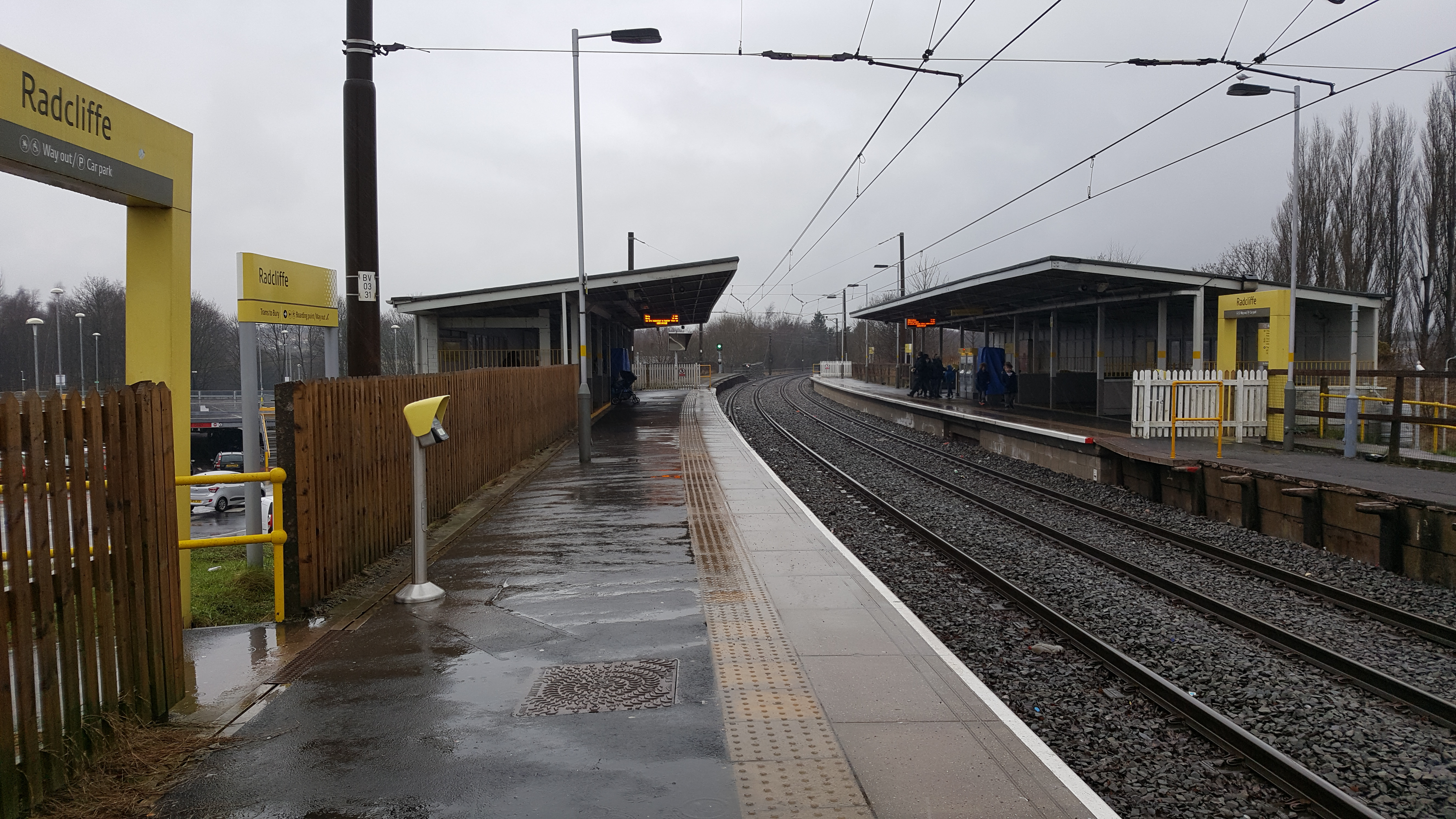 Radcliffe Metrolink station looking towards Bury.